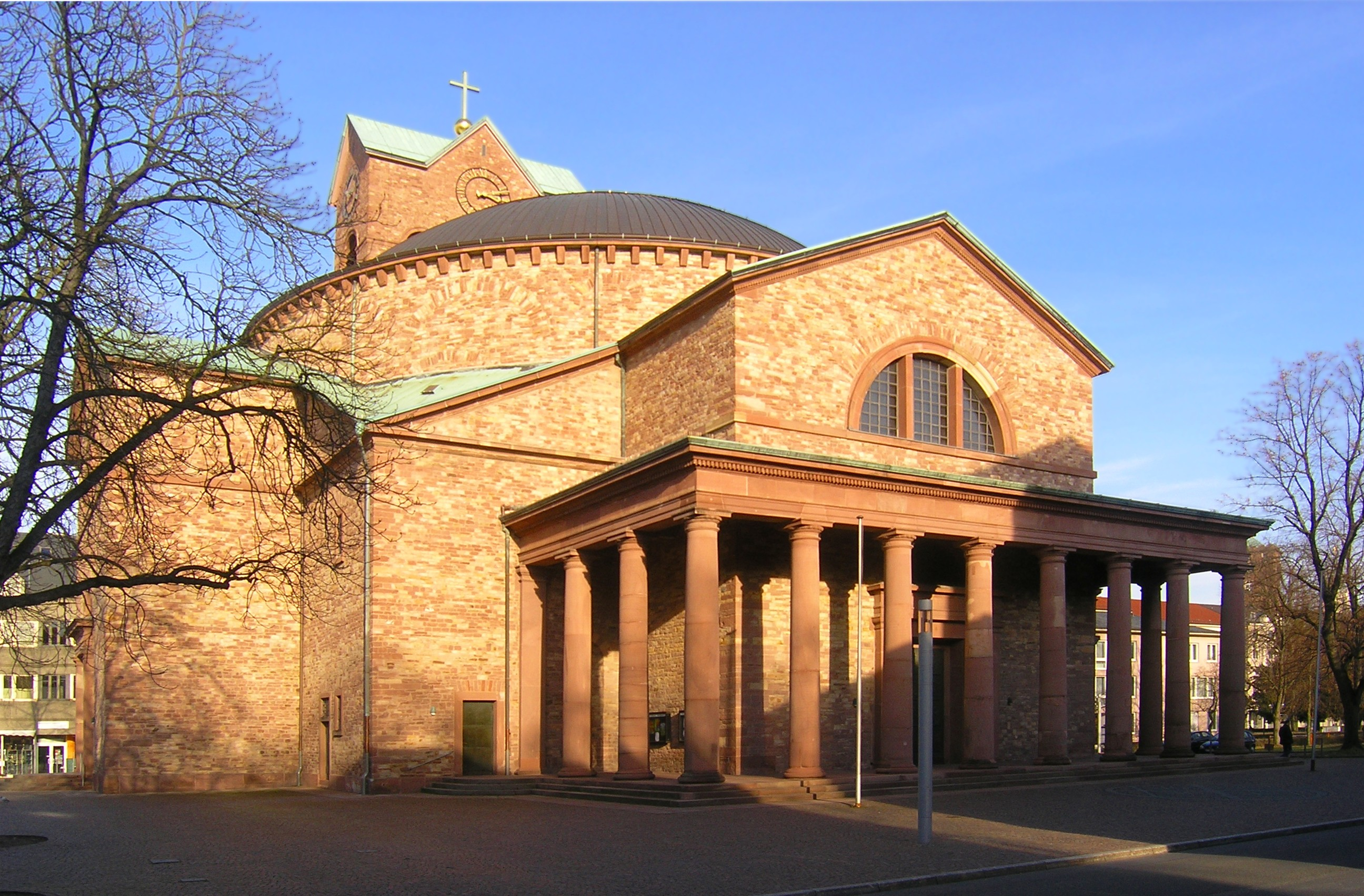 St. Stephan Catholic Church, Karlsruhe (1808-14). Design by Friedrich Weinbrenner. Partially destroyed in 1944, rebuilt 1951-55.